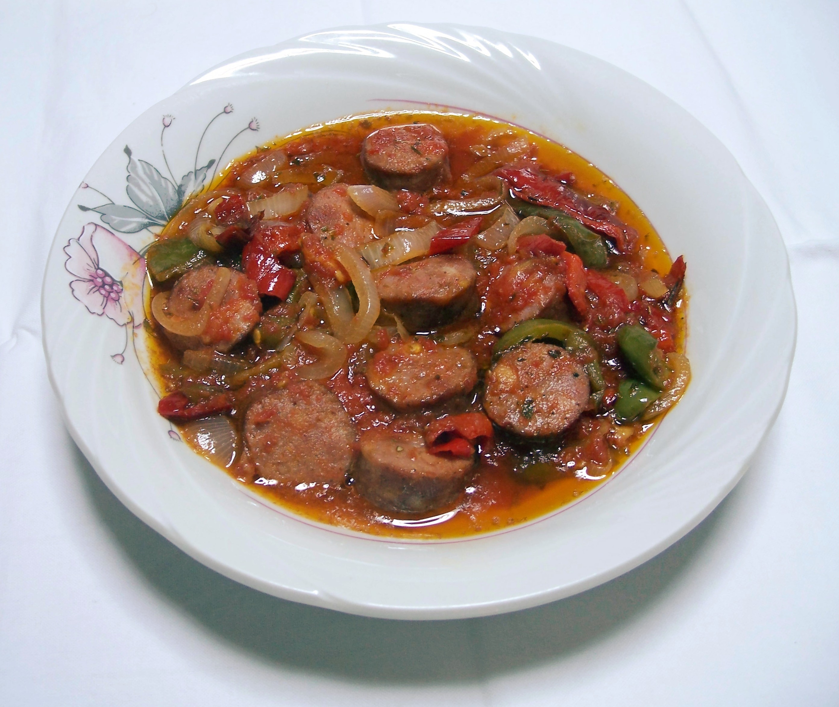 Spetsofai, a traditional greek dish with country sausage,and white rice, onion, peppers and tomato, originating from the region of Pelion.